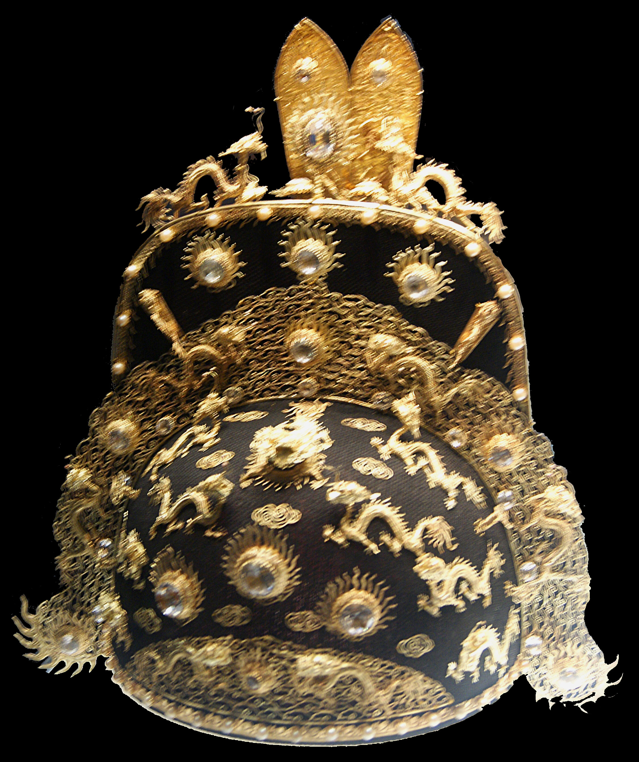 Crowns of Nguyen Emperors, Vietnam